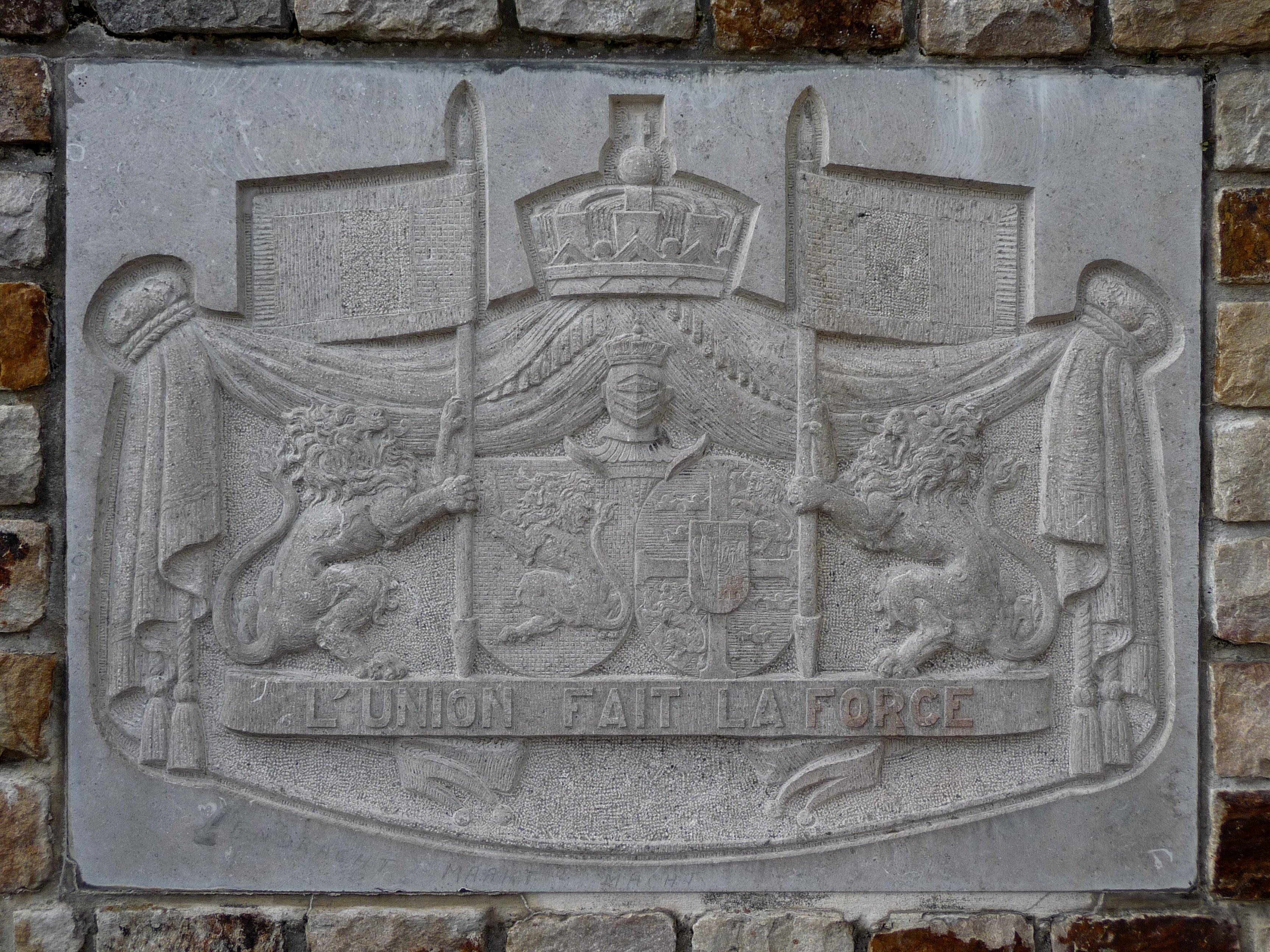 stone relief with french inscription "L'union fait la force"